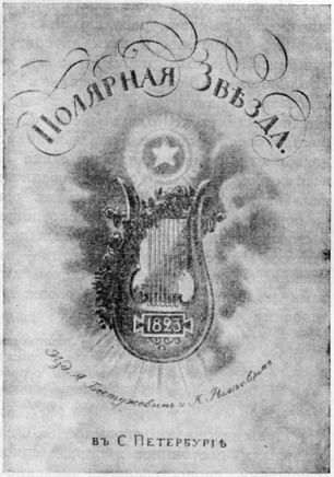 Title page of "Polar star" (russian "Полярная Звезда") literary miscellany of Aleksandr Bestujev and Kondraty Ryleyev. 1823.